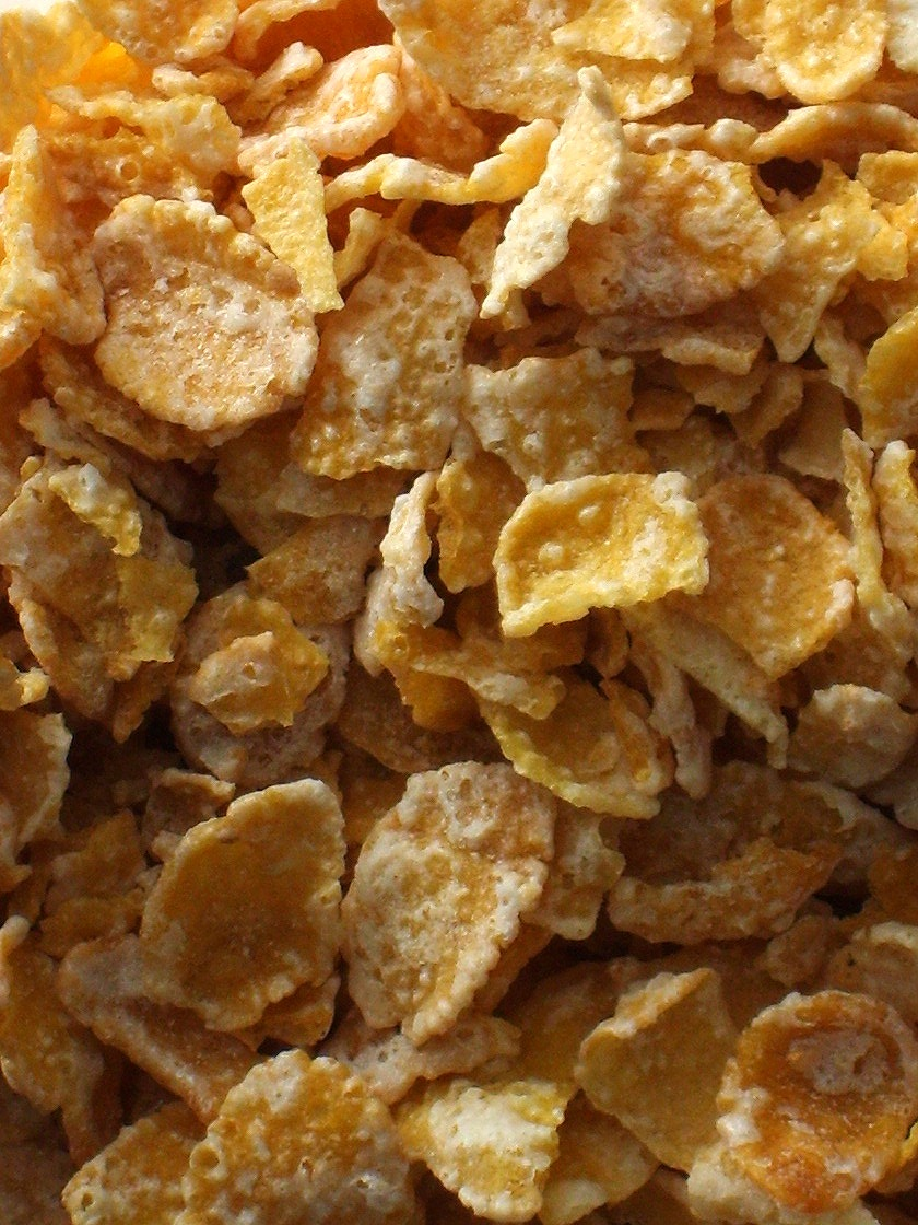 Cornflakes.